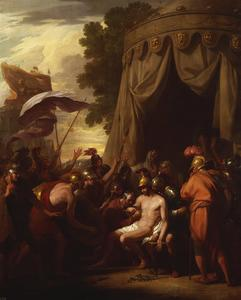 Death of Epaminondas